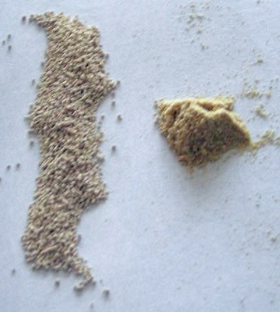 Image of dry winemaking yeast and yeast nutrients. Photo taken on October 20th, 2007 with a kodak z650.